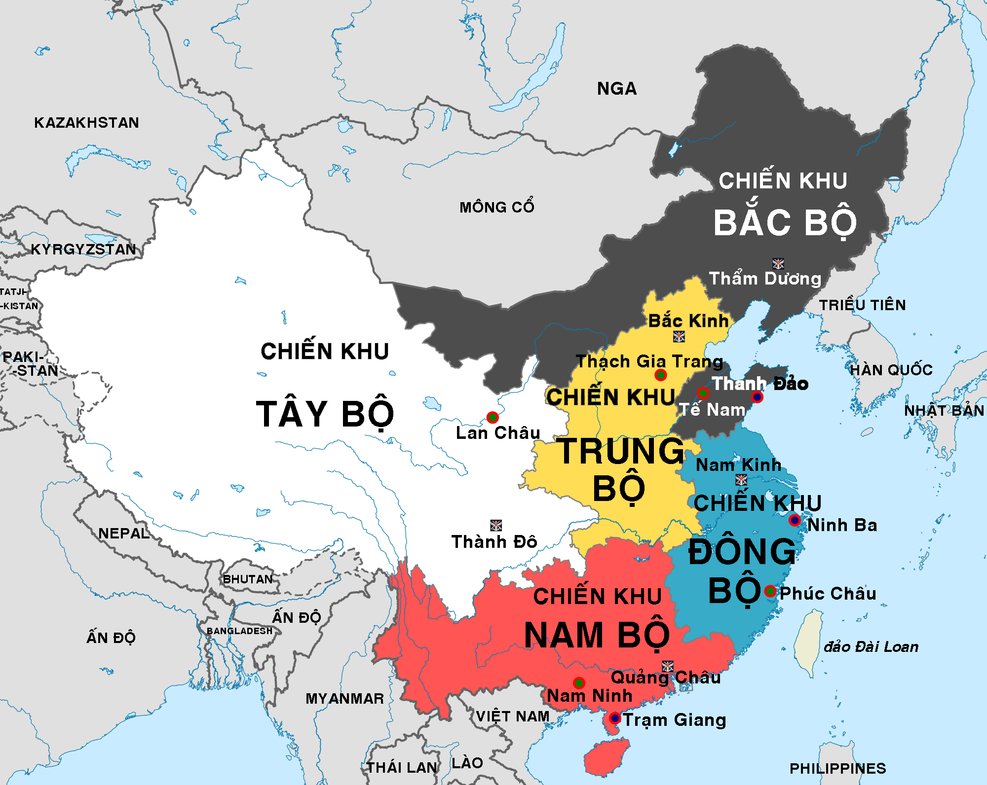 Theater commands of Chinese the People's Liberation Army